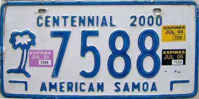 2006 American Samoa license plate